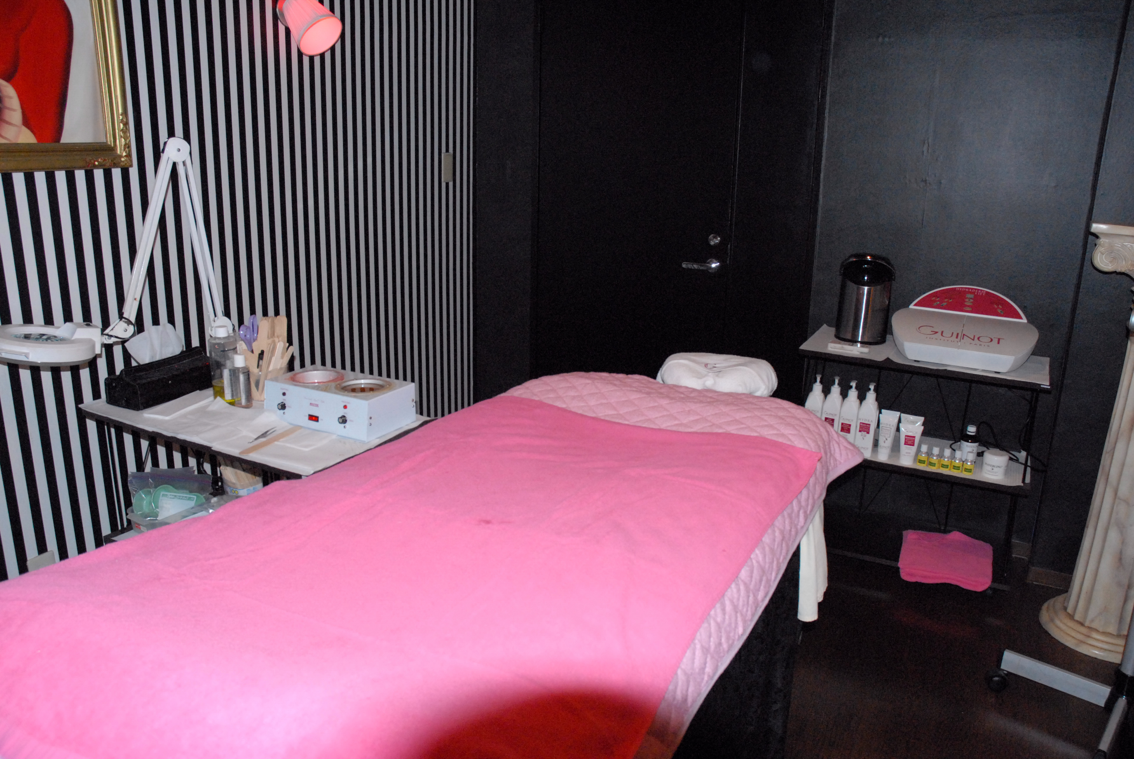 A treatment room of an aesthetic salon with waxing equipment. Tokyo